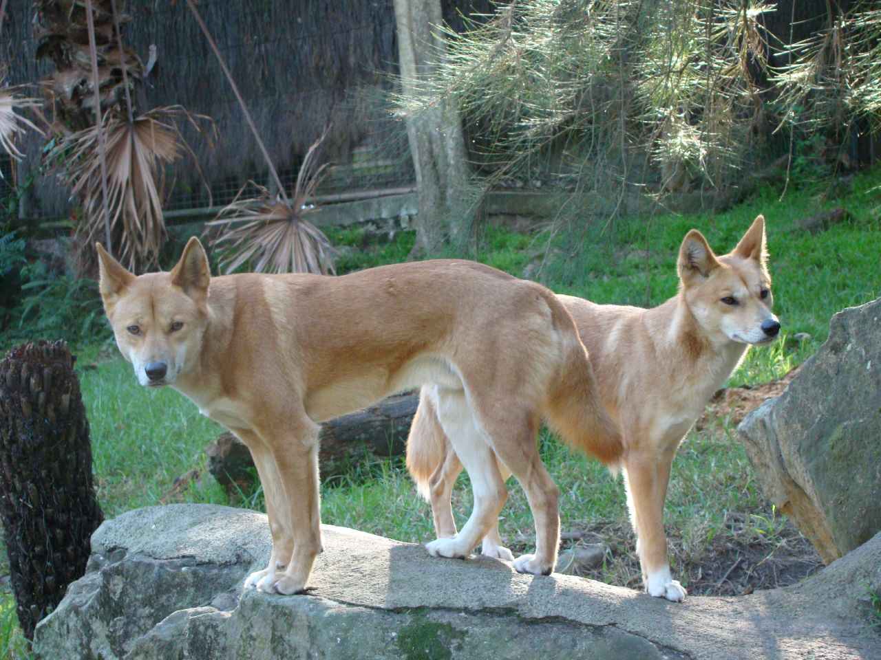 Dingos at the Taronga Zoo in Sydney.